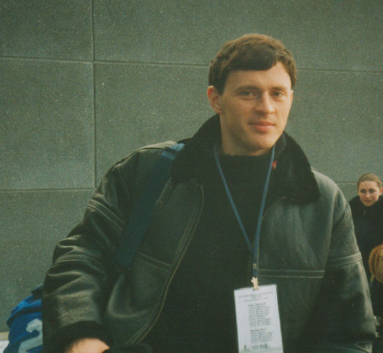 Maxim Marinin before the Grand Prix Final 2003/04